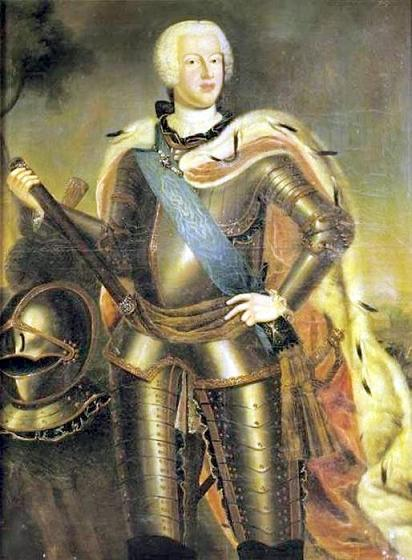 Portrait of Duke Anthony Ulrich of Brunswick (1714-1774)